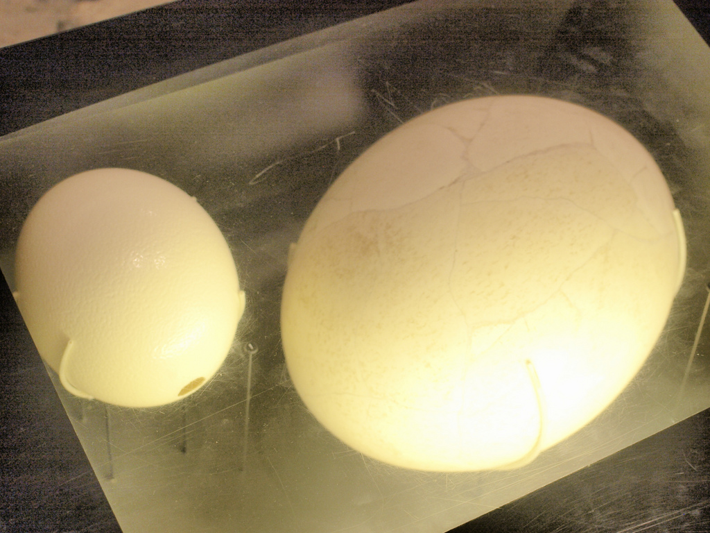 Egg of the ostrich Struthio camelus (Recent Africa) HMNS 17242 Egg of elephant bird Heryornis maximus (Recent Madegascar) HMNS 17242 Wikipedia Loves Art at the Houston Museum of Natural Science This photo of item # 17242 at the Houston Museum of Natural Science was contributed under the team name "Kamraman" as part of the Wikipedia Loves Art project in February 2009. Houston Museum of Natural Science The original photograph on Flickr was taken by donvega—please add a comment to the original Flickr page whenever a use has been made on Wikipedia or another project. Project galleries on Flickr: this institution, this team